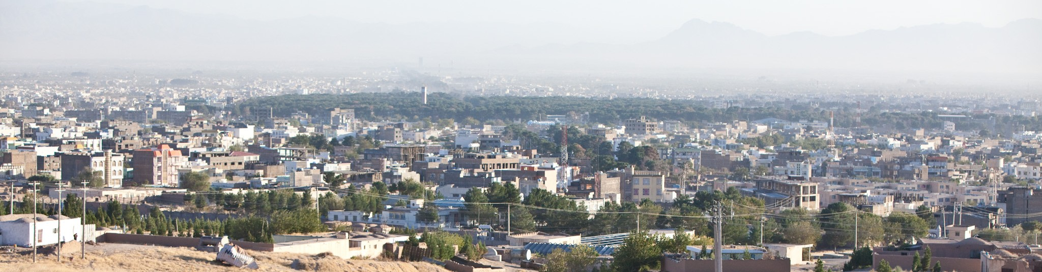 Abandoned armored ifghting vehicles in Herat, Afghanistan. The first row includes from left to right, BMP-1 IFV, T-54A or T-55 MBT, T-62 MBT, BMP-2 IFV, T-62 MBT, T-54A or T-55 BMT, T-62 MBT. The row in the far back includes from left to right: Three BTR-60PB APCs or BRDM-2 reconnaissance vehicles, BTR-6PB APC, BRDM-2 reconnaissance vehicle, BTR-60PB APC, BTR-60, BTR-70 APC and BTR-60PB APC. The row to the far left includes four BTR-60PB APCs or BRDM-2 reconnaissance vehicles (the third one from the foreground is defiantly a BTR-60PB APC).